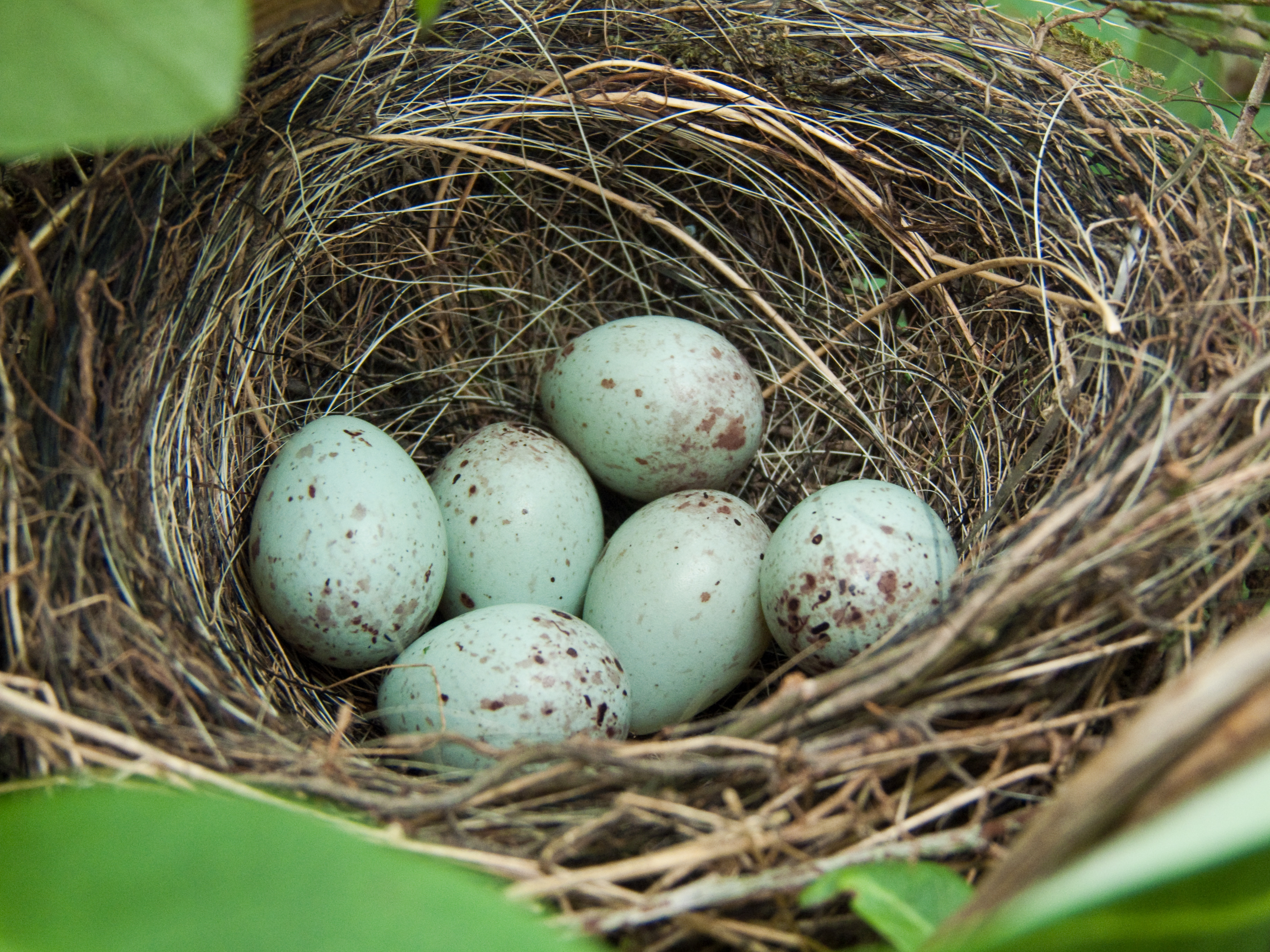 Latin name Pyrrhula pyrrhula Family Finches (Fringillidae) Overview The male is unmistakable with his bright pinkish-red breast and cheeks, grey... Where to see them ... When to see them All year round. What they eat Seeds, buds and insects (for young).